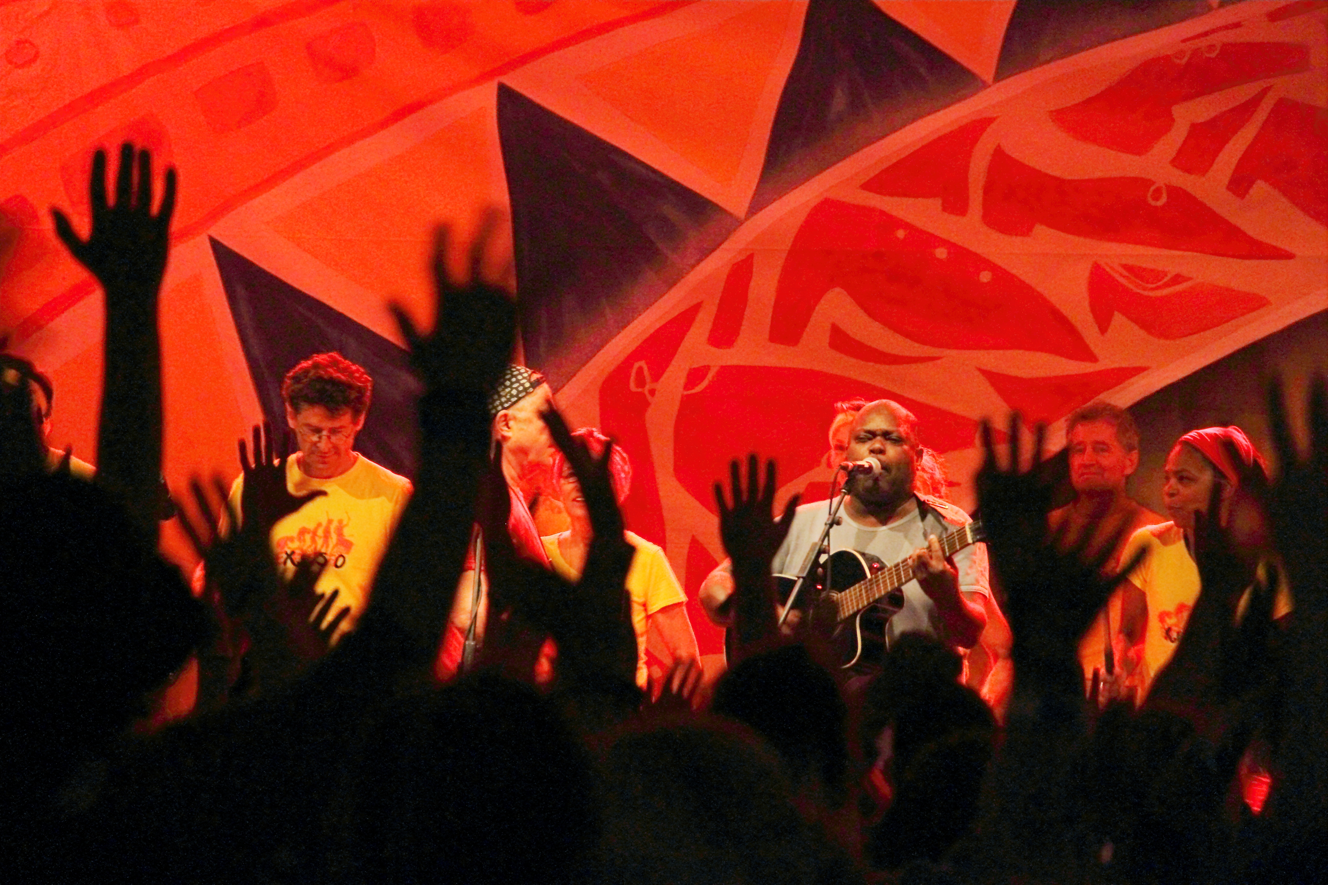 The Samba group Bloco Explosão from Berlin perform in the "Tanzzelt" (Dancetent) at Rudolstadt-Festival 2016.